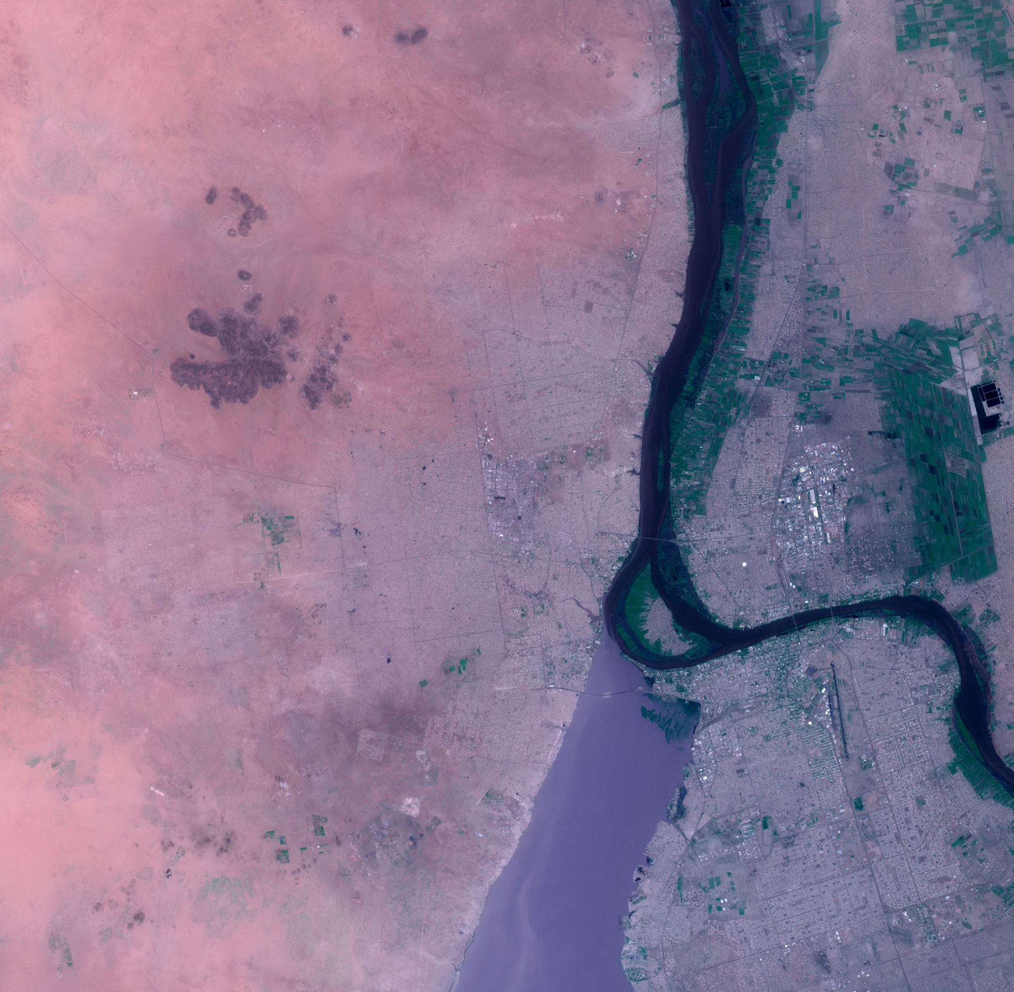 The cities Omdurman (left), Bahri (top right) and Khartoum (bottom right) divided through the Nile river.